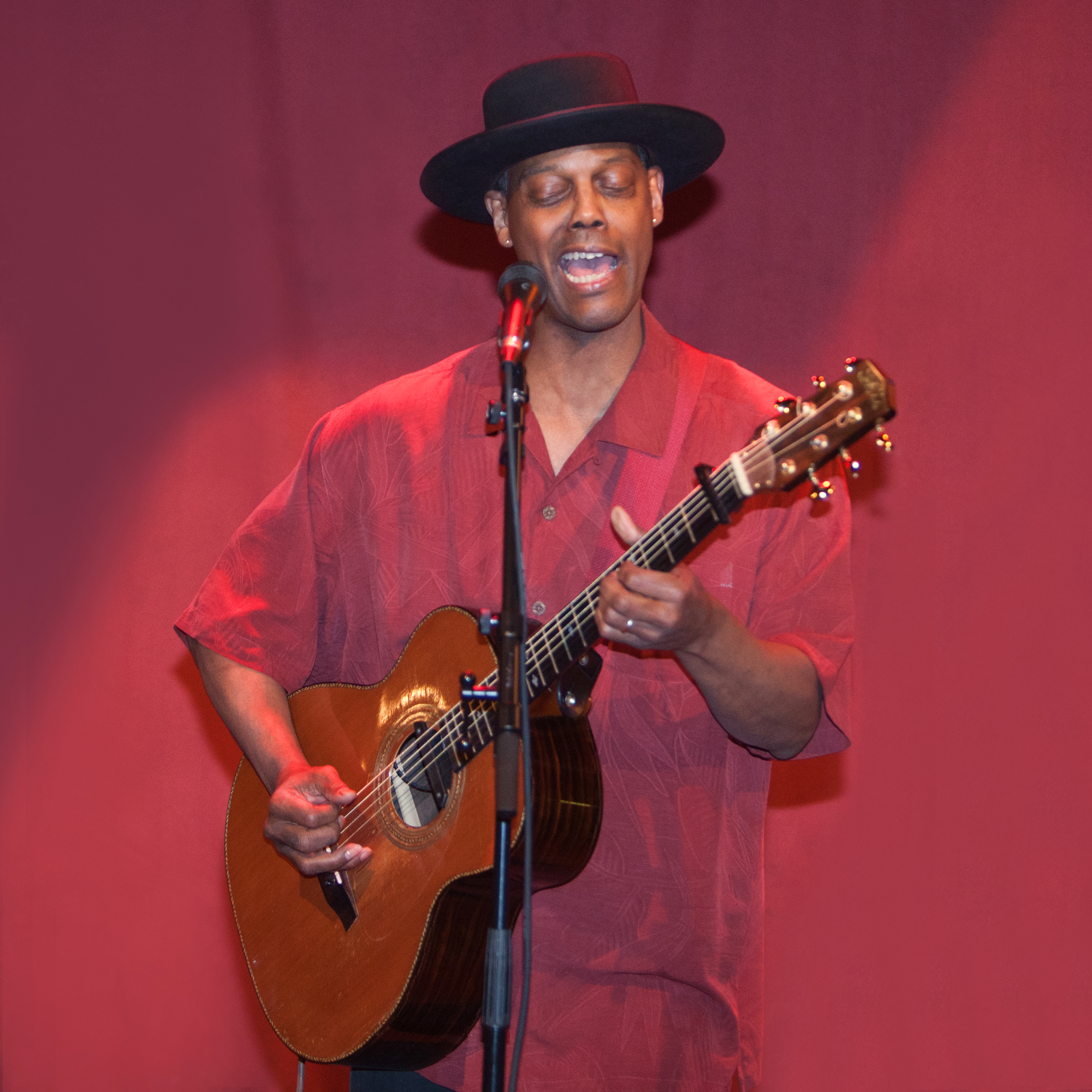 Eric Bibb in Jenny Bohman tribute concert at Fasching Stockholm April 2012